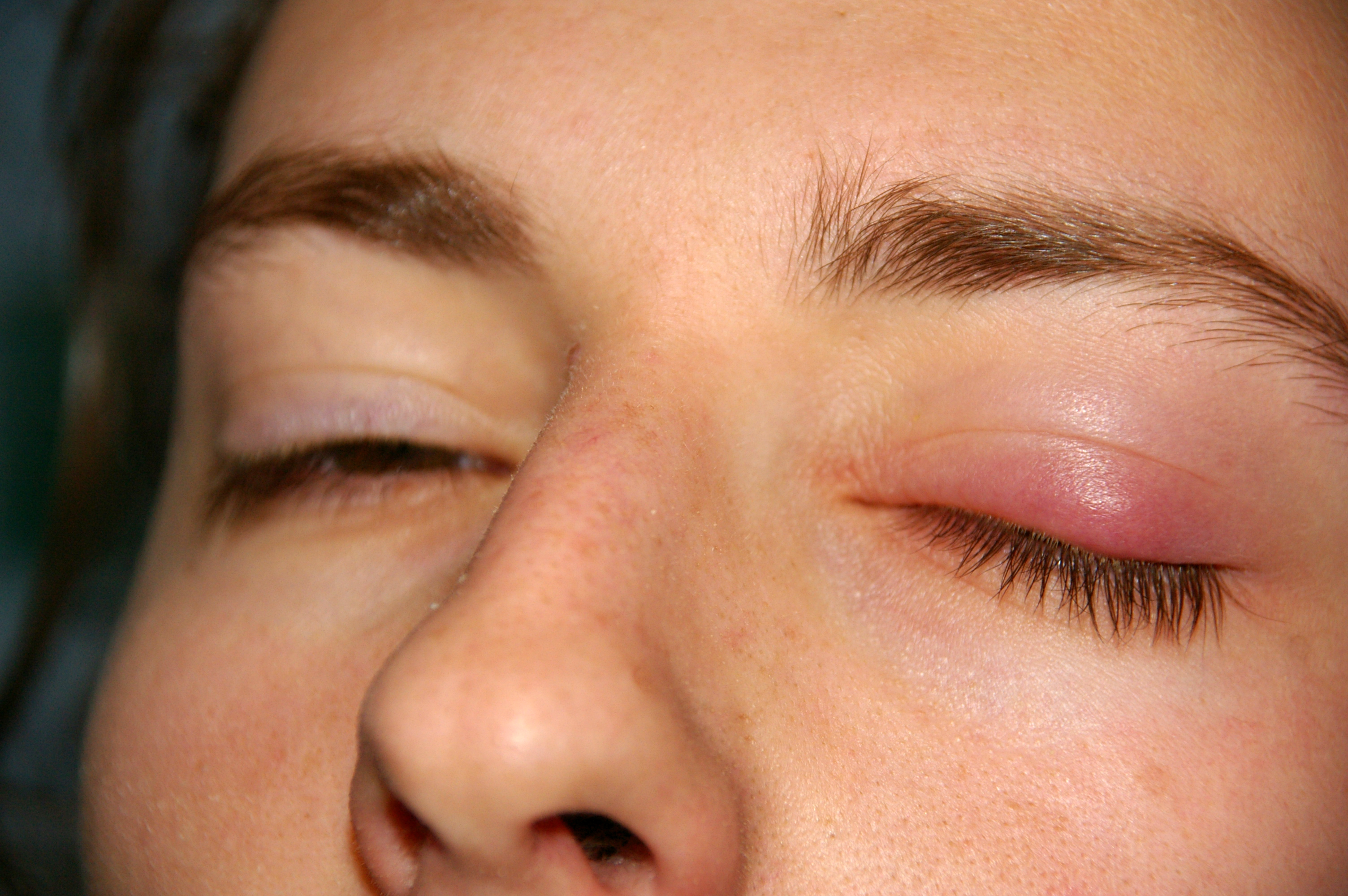 A light chalazion.